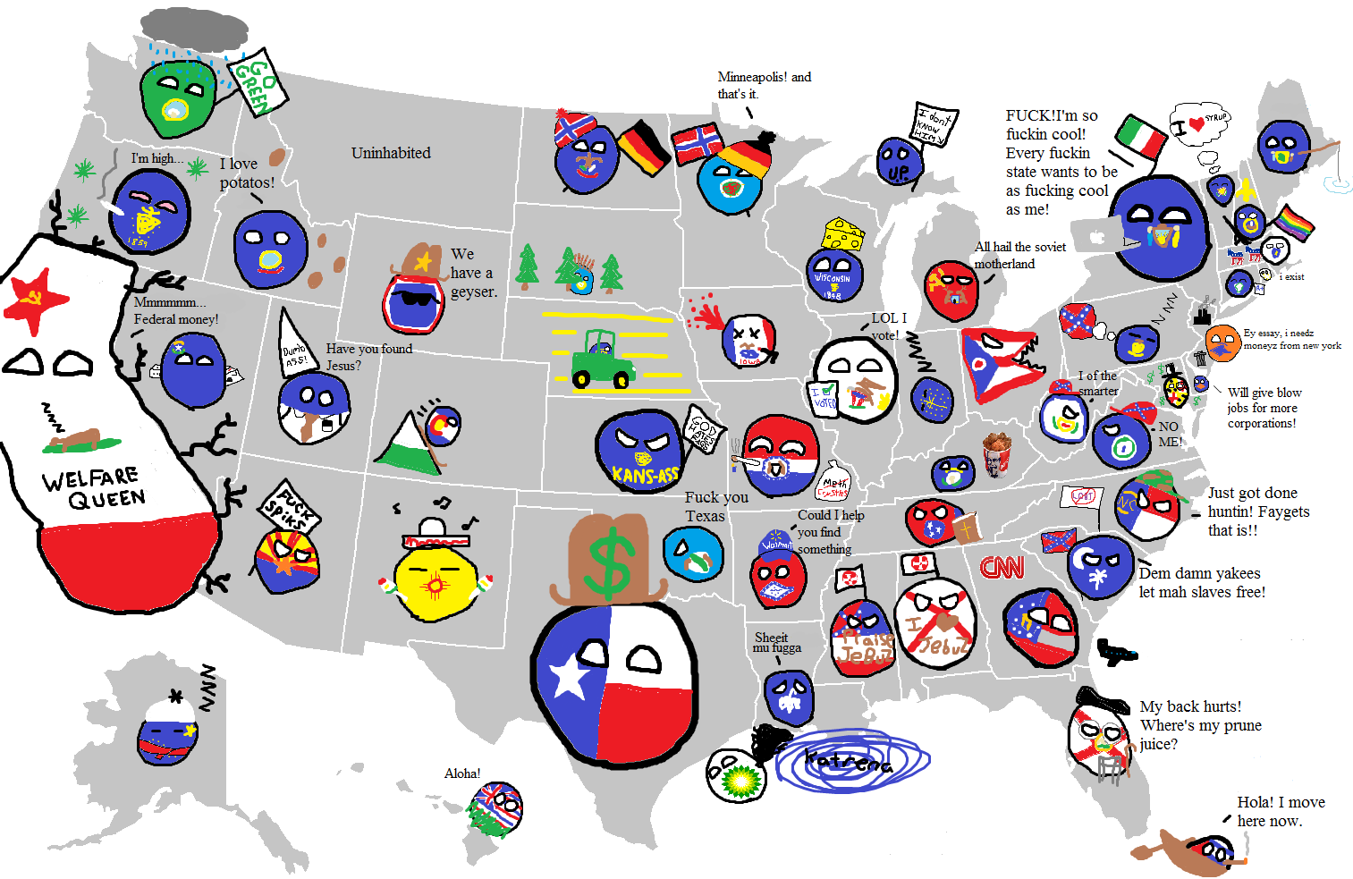 Polandball map of the United States